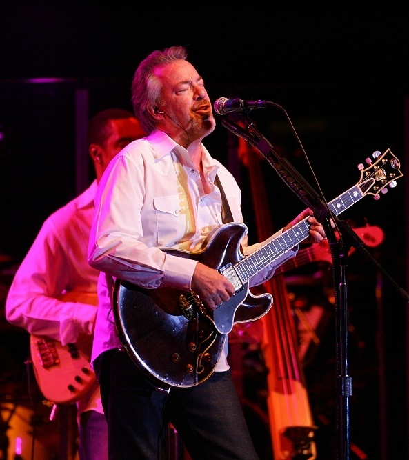 Dwight McCann, [1], Boz Skaggs in concert at the Chumash Casino Resort in Santa Ynez, California, on August 10, 2006. Cropped to show performer & eliminate watermark by Ali'i on 15:23, 13 June 2008 (UTC)